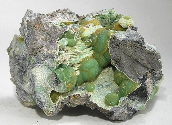 Wavellite Locality: Mauldin Mountain Quarries, Mauldin Mt., Montgomery County, Arkansas, USA (Locality at ) Size: 8.4 x 5.9 x 5.1 cm. Deep green balls of wavellite to 1.3 follow the contours of this exposed pocket. The balls that are incomplete show their concentric structure. A few areas in Arkansas together represent the prime worldwide source for good specimens of this species.